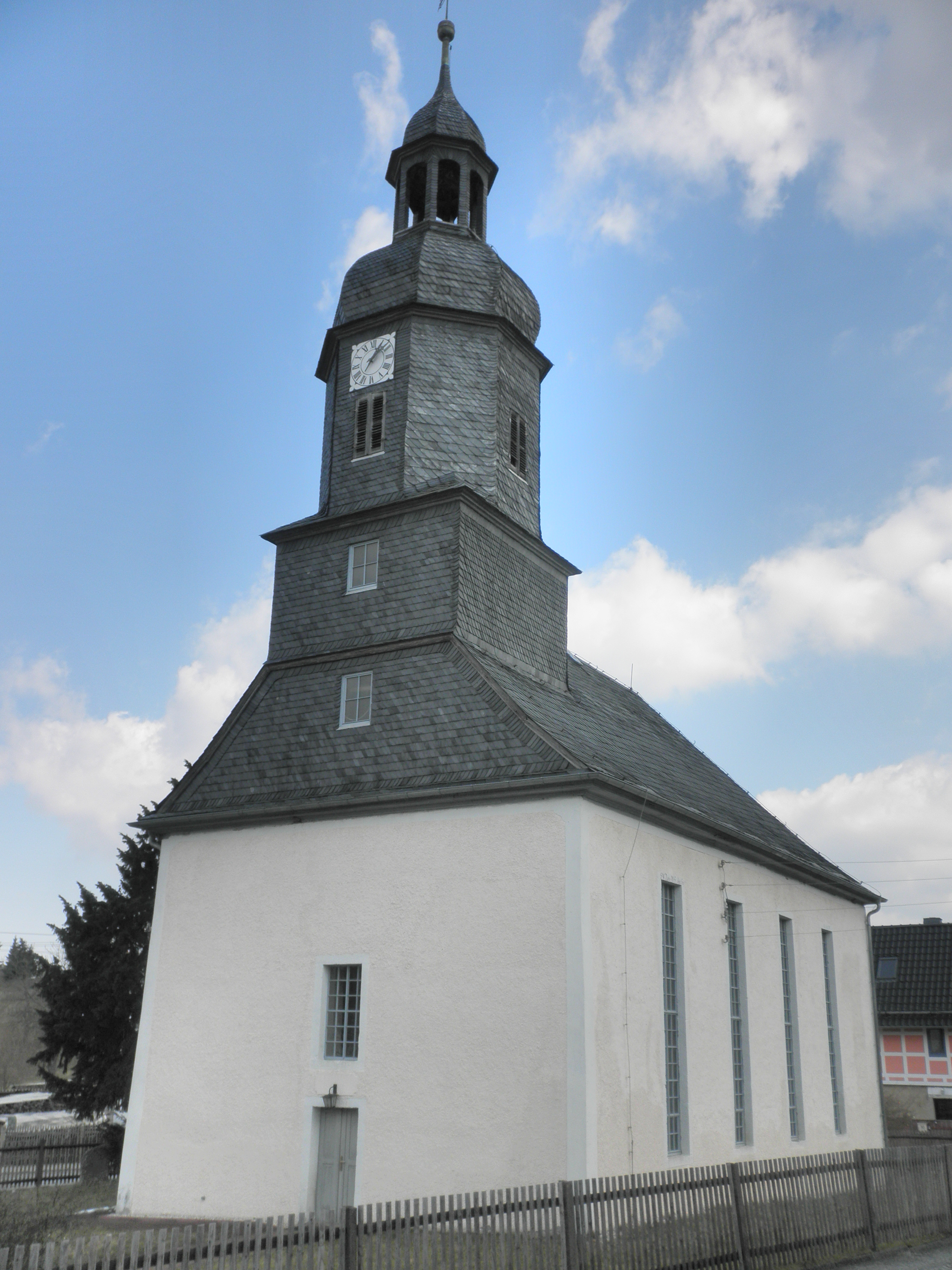 Church in Oberbodnitz in Thuringia